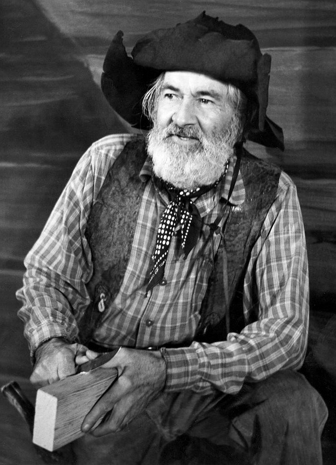 Gabby Hayes photo for NBC in 1953